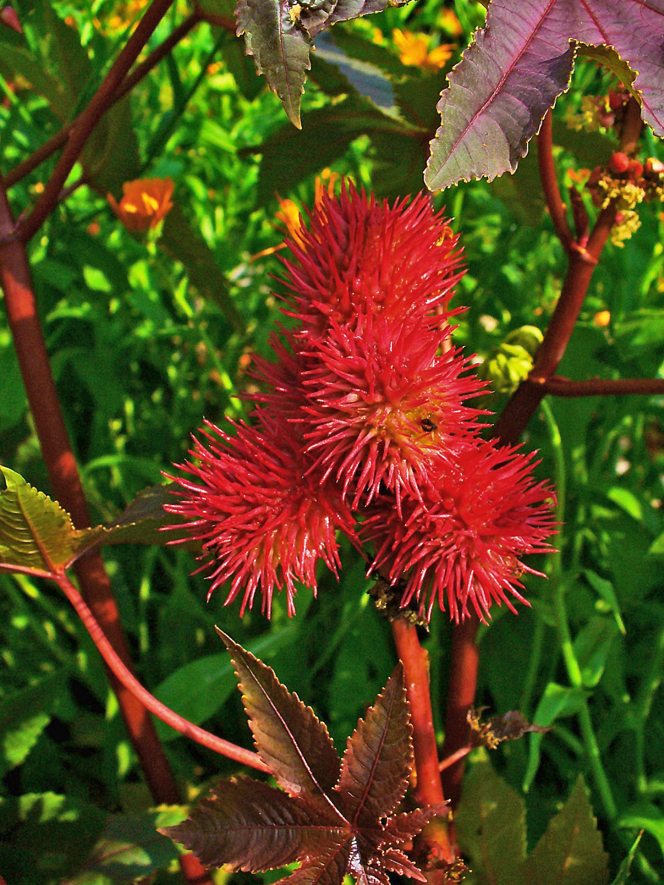 Ricinus communis, Euphorbiaceae, Castor Oil Plant, fruits.